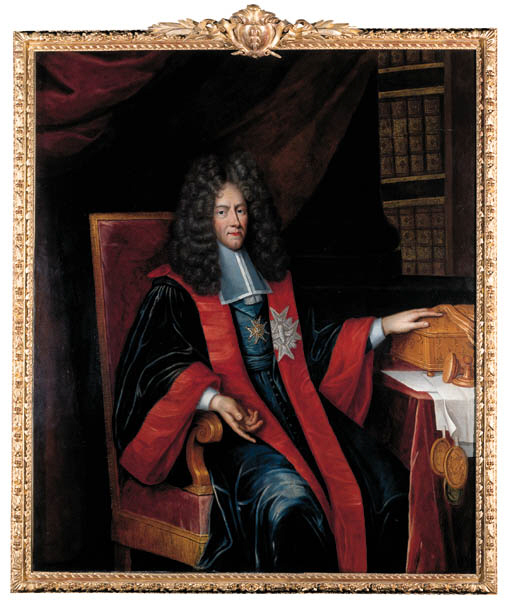 Louis Phélypeaux, comte de Pontchartrain (1643-1727)